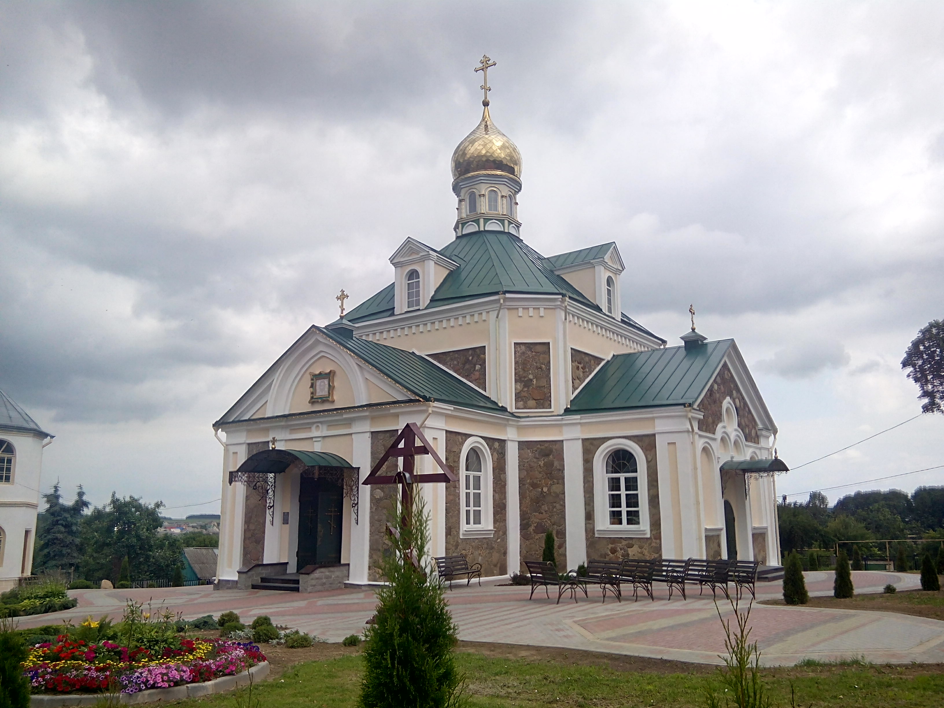 Holy Ascension Church in Kapyl, Minsk Region, Belarus